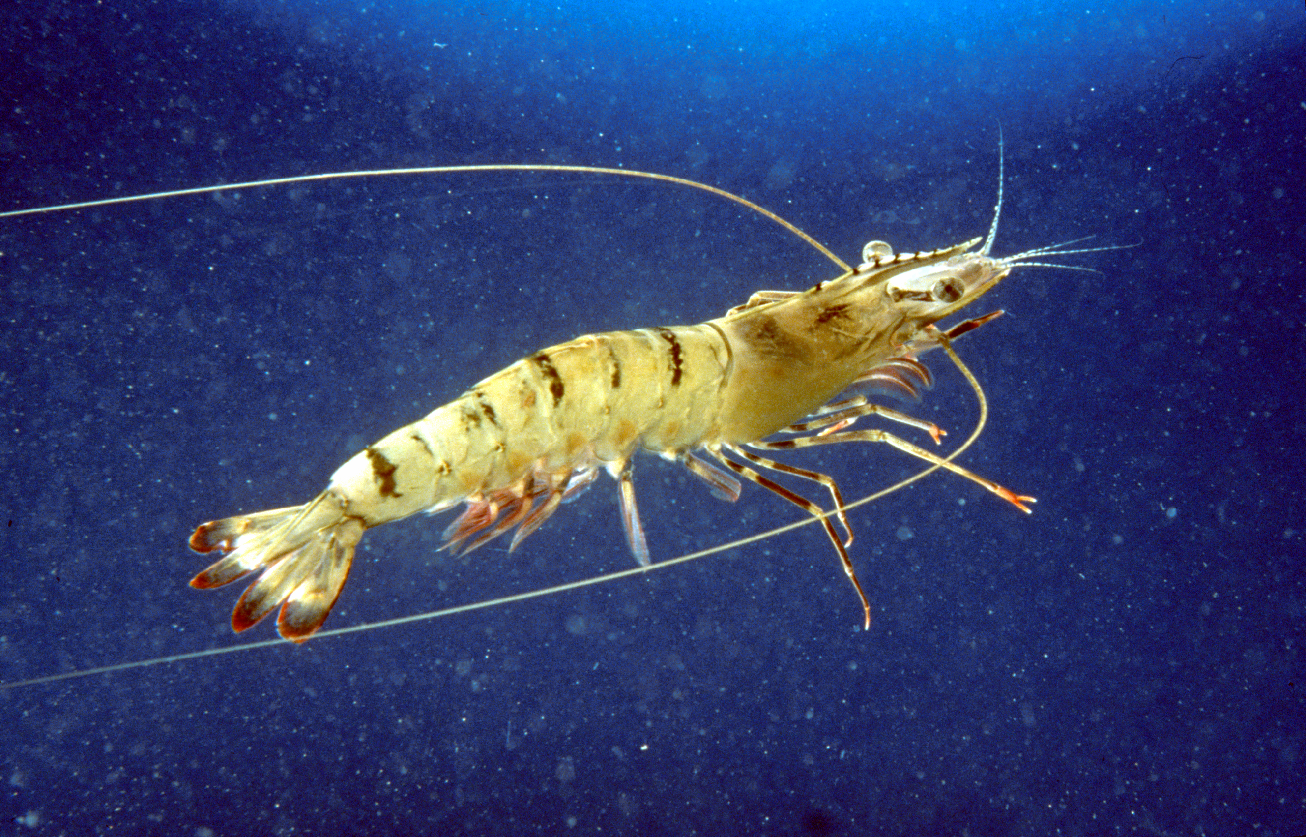 The giant tiger prawn (Penaeus monodon) is the dominant prawn species farmed in Asia and Australia. Scientists at CSIRO Marine Research are working to improve the average productive output of the giant tiger prawn, improve the capacity of prawn farms to stock ponds with progeny from domesticated broodstock, and develop and introduce selective breeding for commercially useful traits. Picture credit: CSIRO Marine Research.